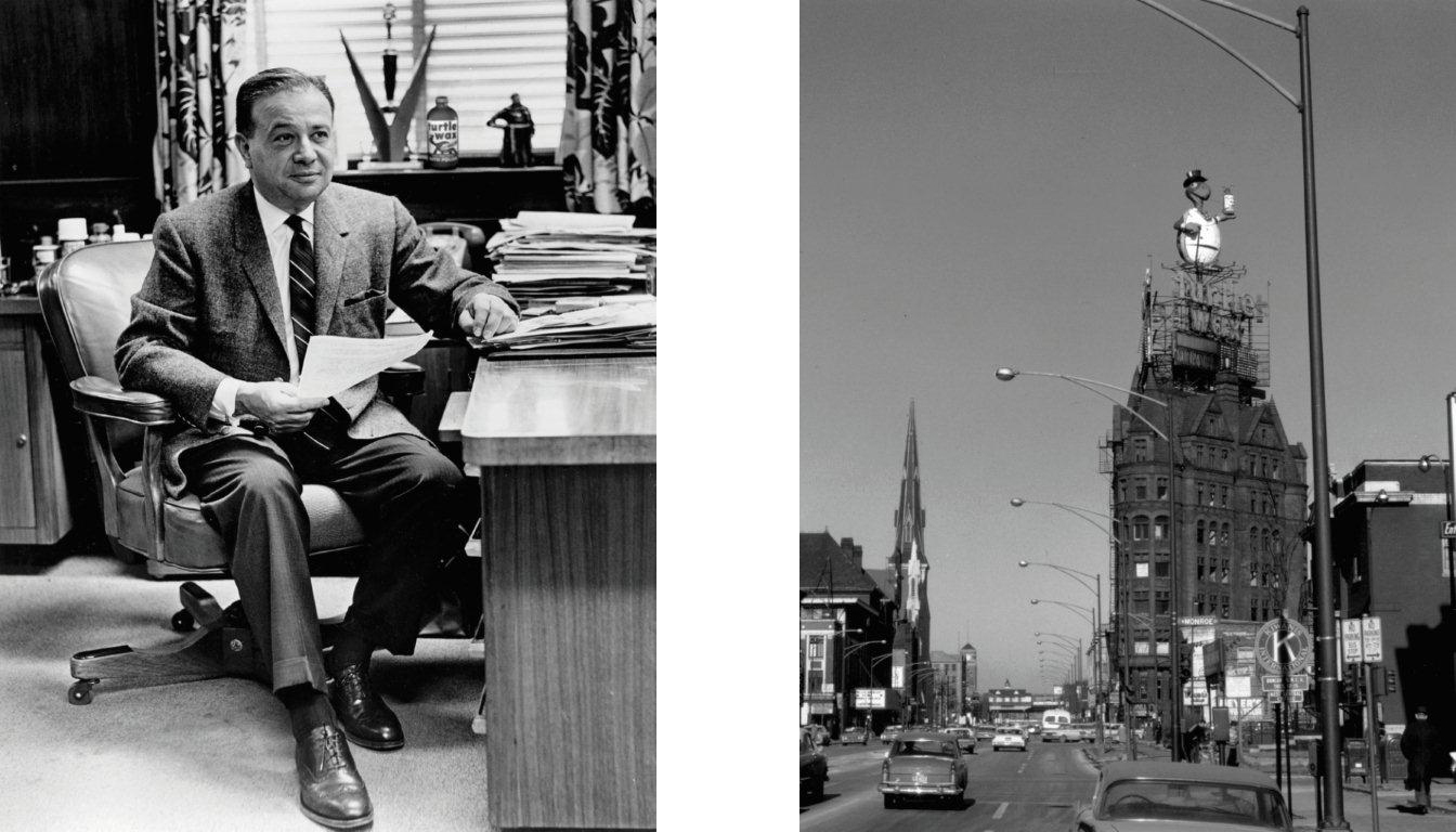 Benjamin Hirsch in his office, at right an advertising of Turtle Wax on the roof.